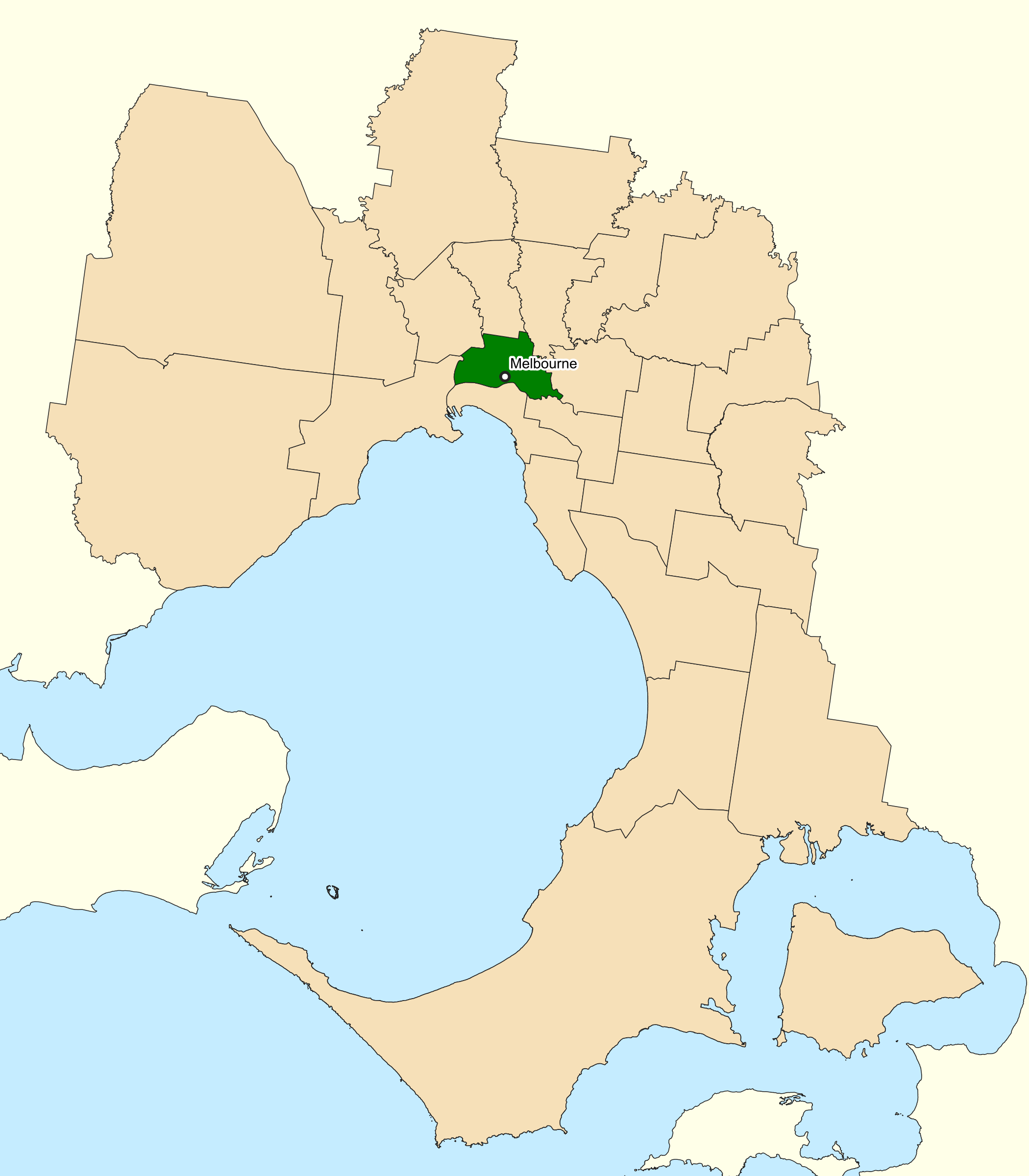 Location of the Australian federal electoral division of Melbourne (dark green) in Greater Melbourne, Victoria as of the 2019 Australian federal election. Incorporates or developed using Administrative Boundaries ©PSMA Australia Limited licensed by the Commonwealth of Australia under Creative Commons Attribution 4.0 International licence (CC BY 4.0).